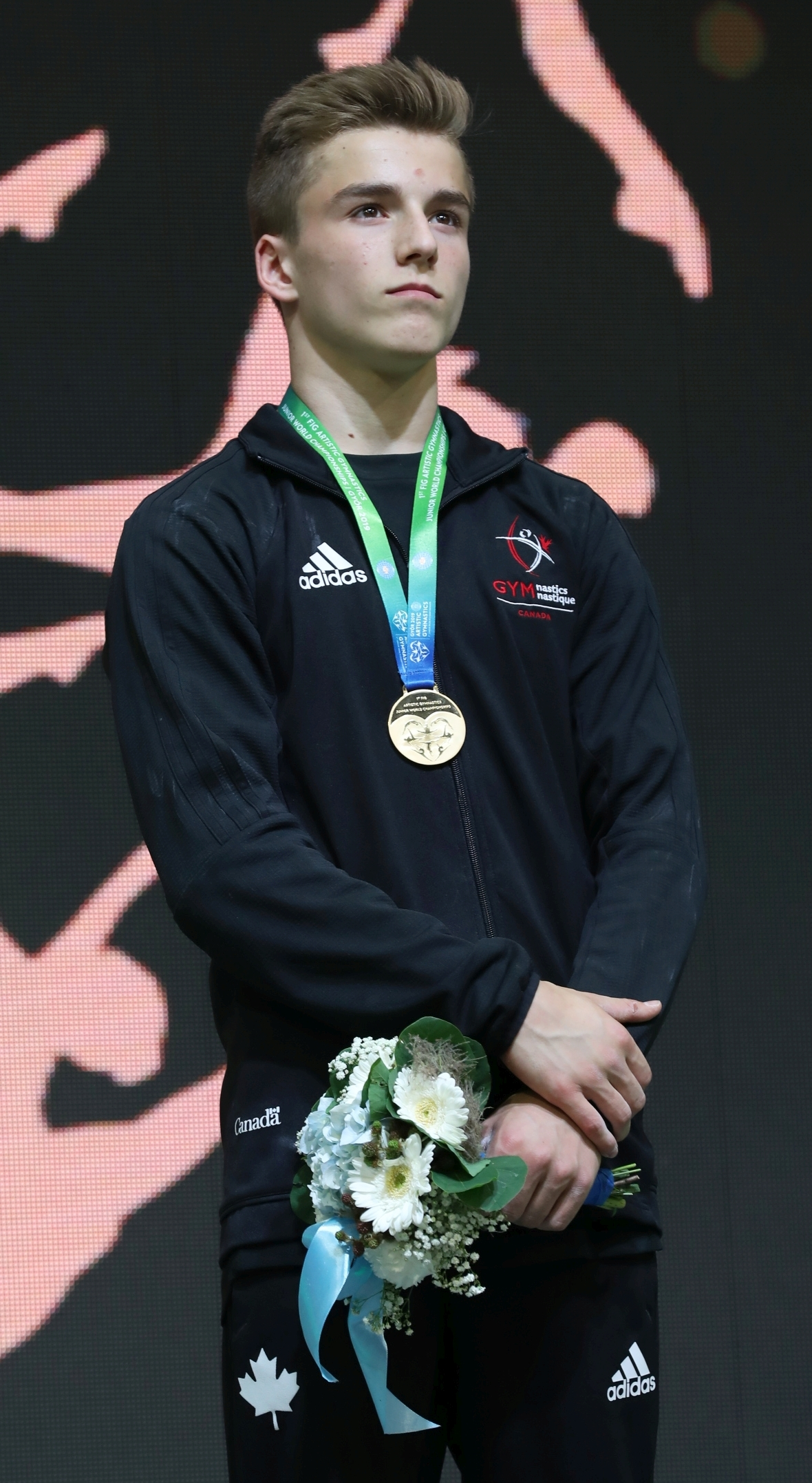 Still rings victory ceremony during the boys' apparatus finals at the 1st FIG Artistic Gymnastics Junior World Championships on 29 June 2019 in Győr, Hungary. Depicted: Félix Dolci.